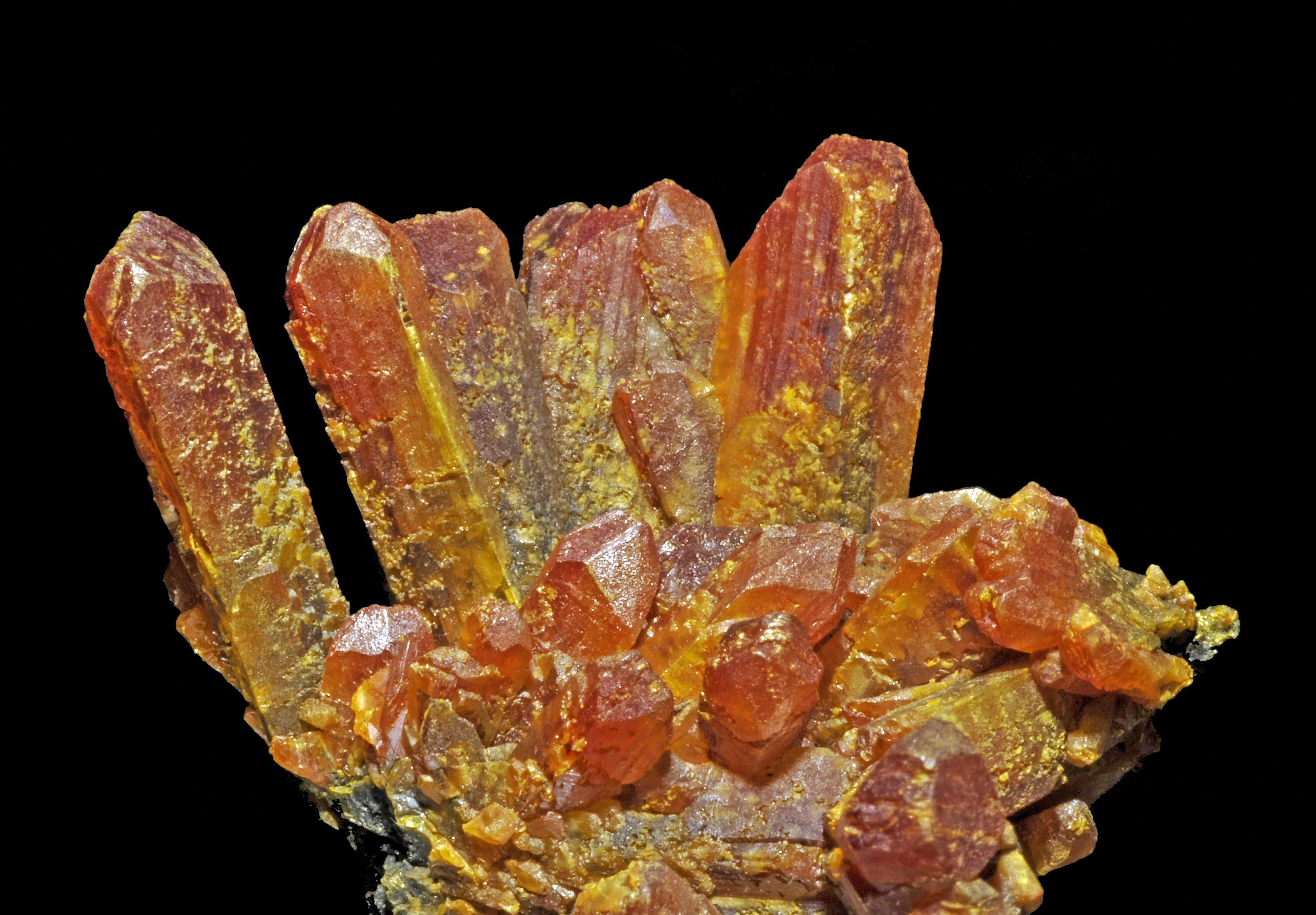 orpiment : Jiepaiyu Mine (Shimen Mine), Shimen As-(AU) deposit, Shiment Co., Changde Prefecture, Hunan Province, China